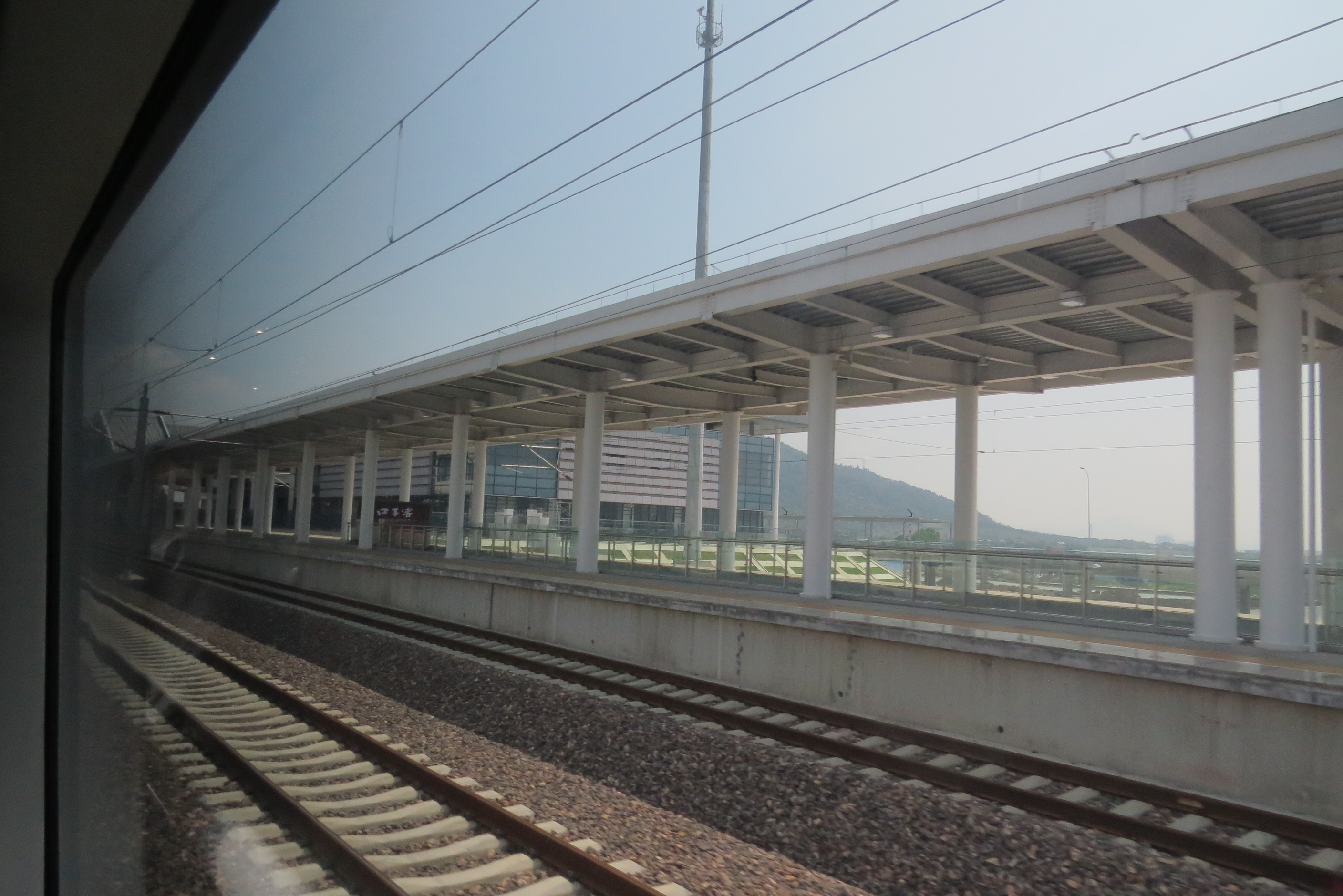 Taken from G27 Beijing-Fuzhou high speed express. Chaohu was relegated to a county-level city in 2011, and this station was relegated to a ballast-filled station in Feb 2015.